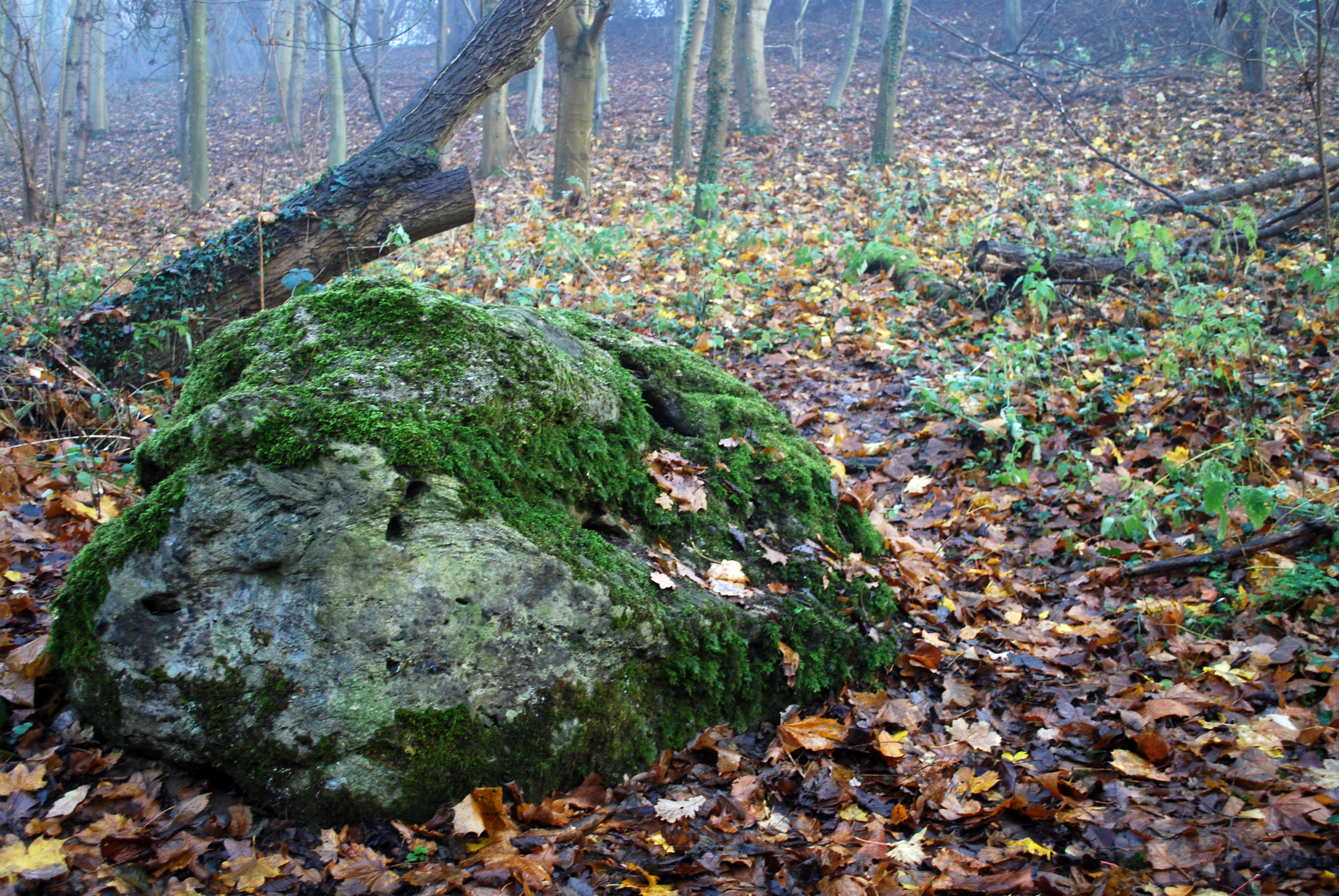 Alongside a possible hollow way in The Grove (or King's Grove) south of St Edmund's Chapel east of Lyng, lies the Great Stone, a glacial erratic. The stone is associated with a variety of myths within local folklore.